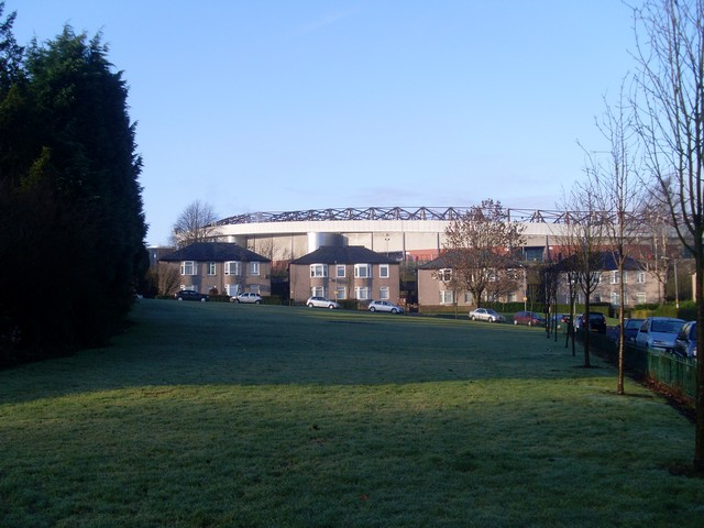 Living in the shadow of Hampden Park Houses on Curling Lane,Hangingshaw, right beneath the National Stadium.